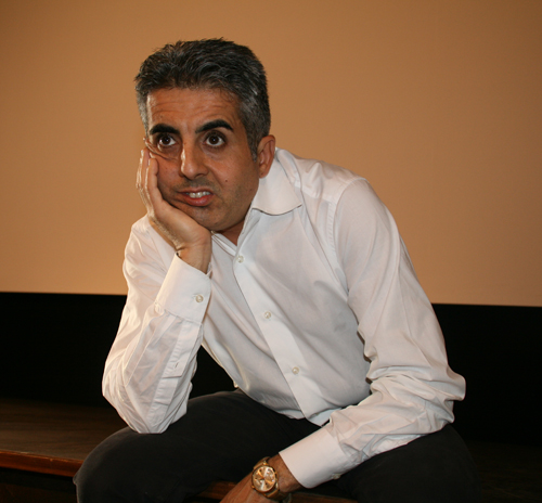 Massimiliano Medda (Italian Actor)